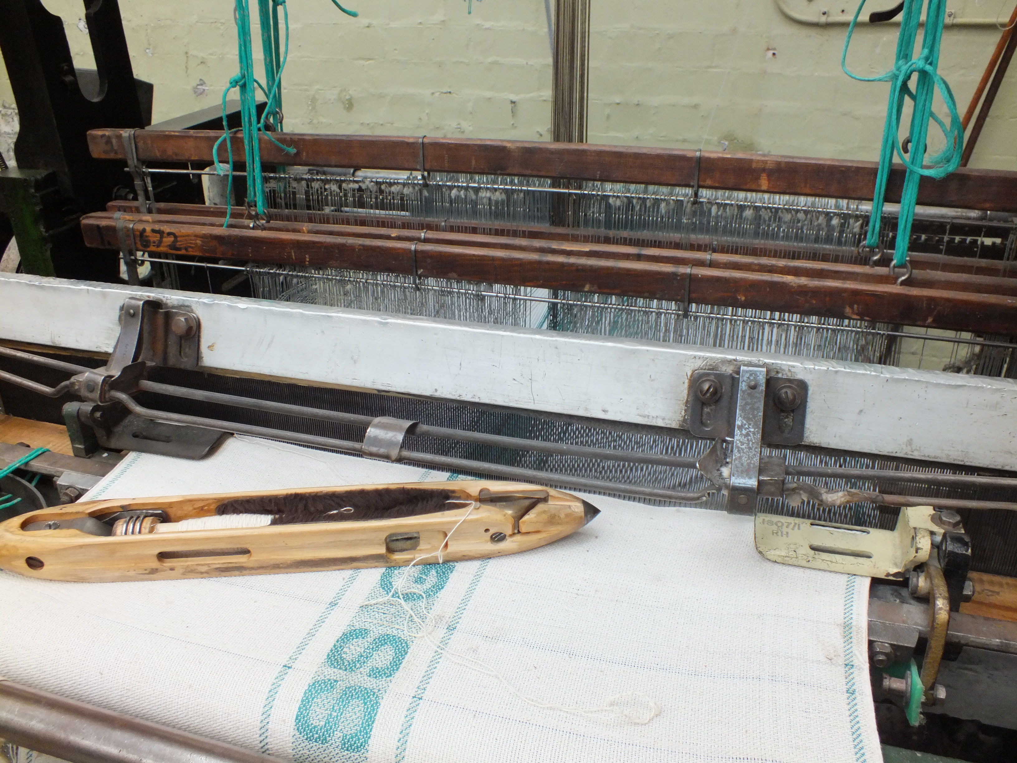 Queen Street Mill in Harle Syke, a suburb to the north-east of Burnley, Lancashire, was built in 1894 for the Queen Street Manufacturing Company. It closed on 12 March 1982 and was mothballed, but was subsequently taken over by Burnley Borough Council and used as a museum. In the 1990s ownership passed to Lancashire Museums. Unique in being the world's only surviving steam-driven weaving shed. The Northrop loom was invented in 1891 by James Henry Northrop who invented the self changing shuttle device. The model S has a dobby to control the main weave with a jacquarette to to handle the pattern in the green name band. The Leesona Unifil was first sold in 1958 is a high speed pirn winder where a depleted pirn is filled and replaced in the pirn rack. County Brook Mill